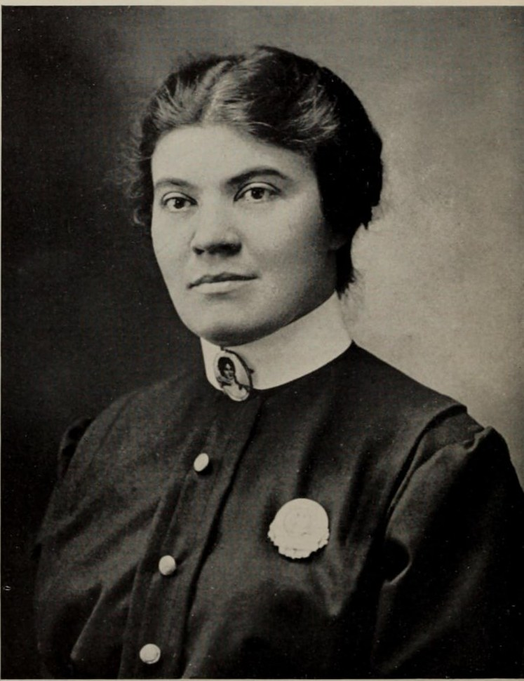 New York Police Department police matron Mary Agnes Sullivan's official photo when she first joined the force in 1911